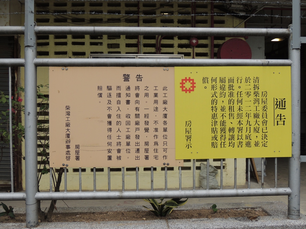 Chai Wan Factory Estate